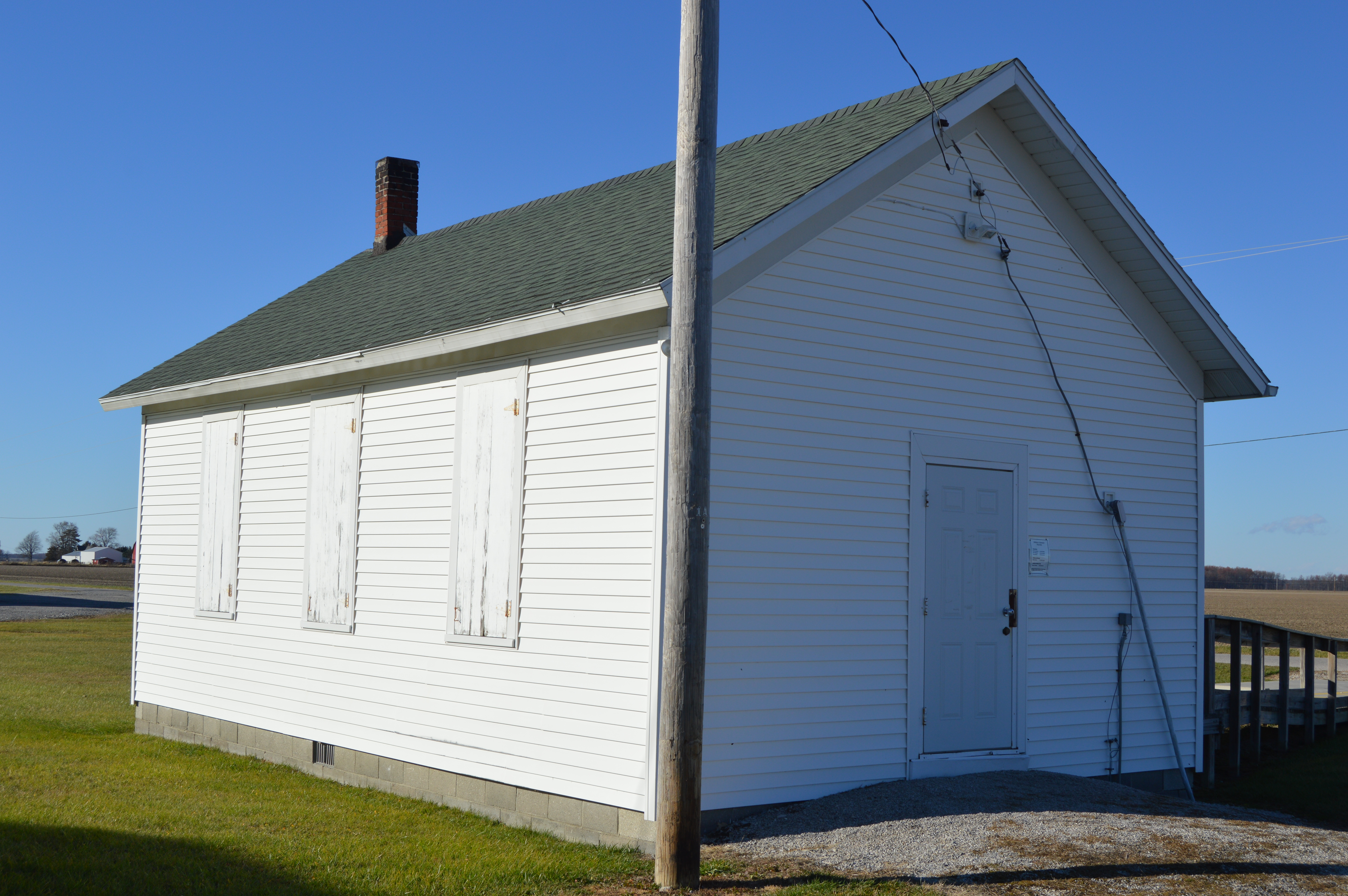 Front and southern side of the Emerald Township House, located on the southwestern corner of the intersection of Roads 218 and 133 east of Cecil, Ohio, United States.